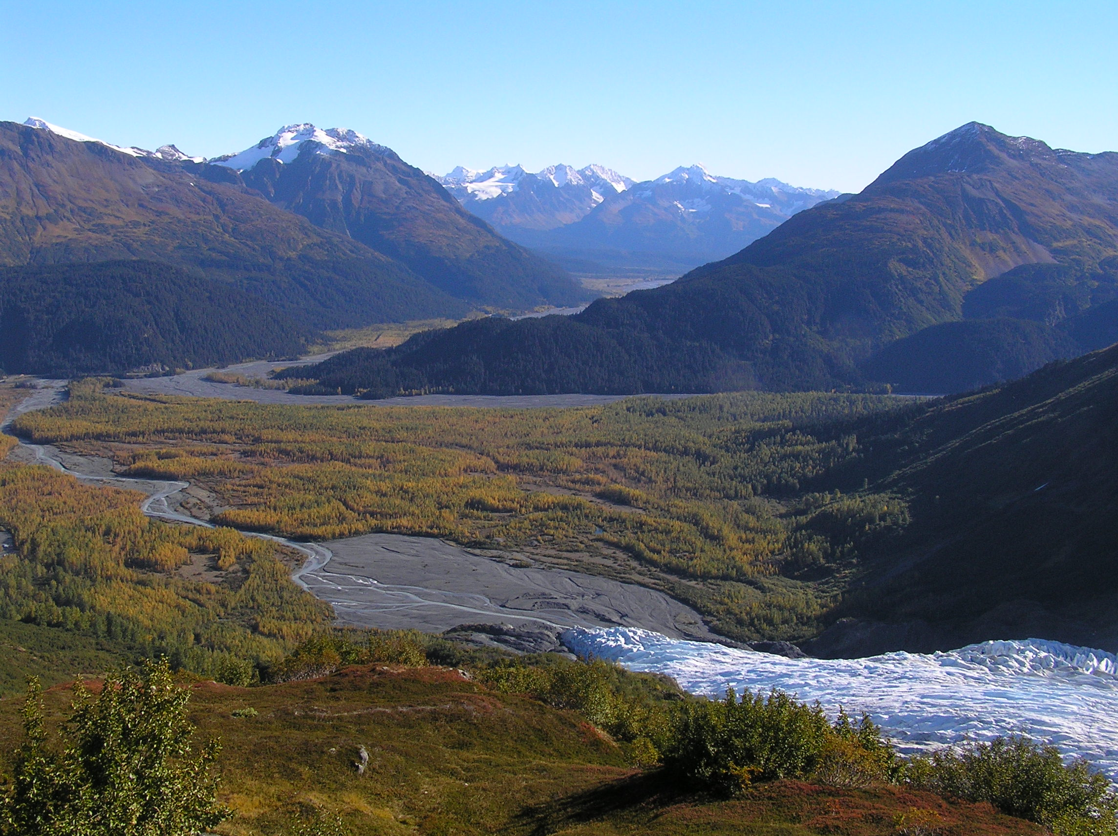 Udolie resurrection river, Alaska